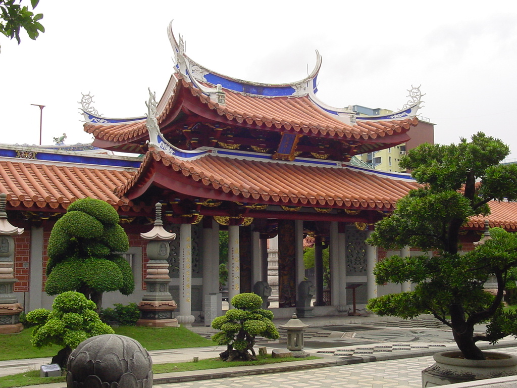 Siong Lim Temple